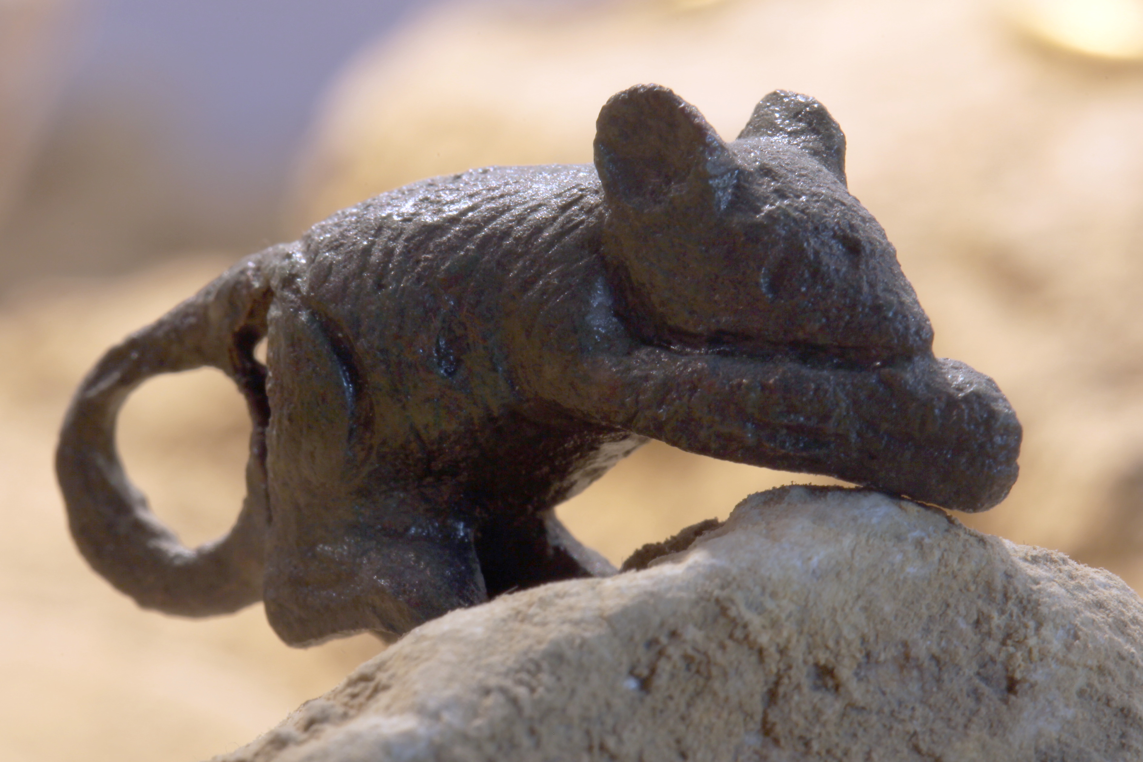 Bronze mouse pendant. On display at Vidy Roman Museum